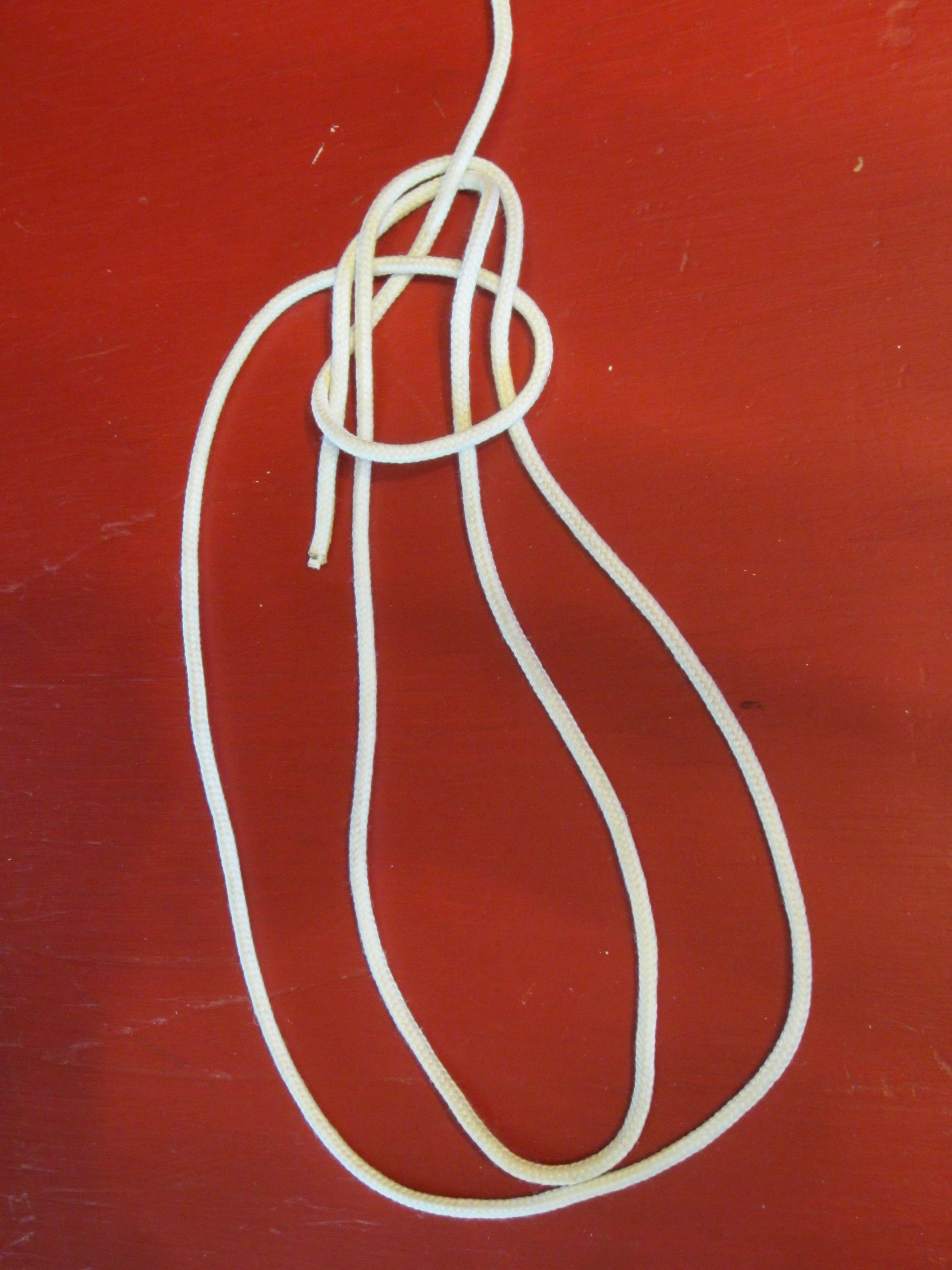 Birmingham bowline knot before dressing and tightening, tied in clothes line. Two loops are formed by taking a second turn about the standing part with the working end of the line.